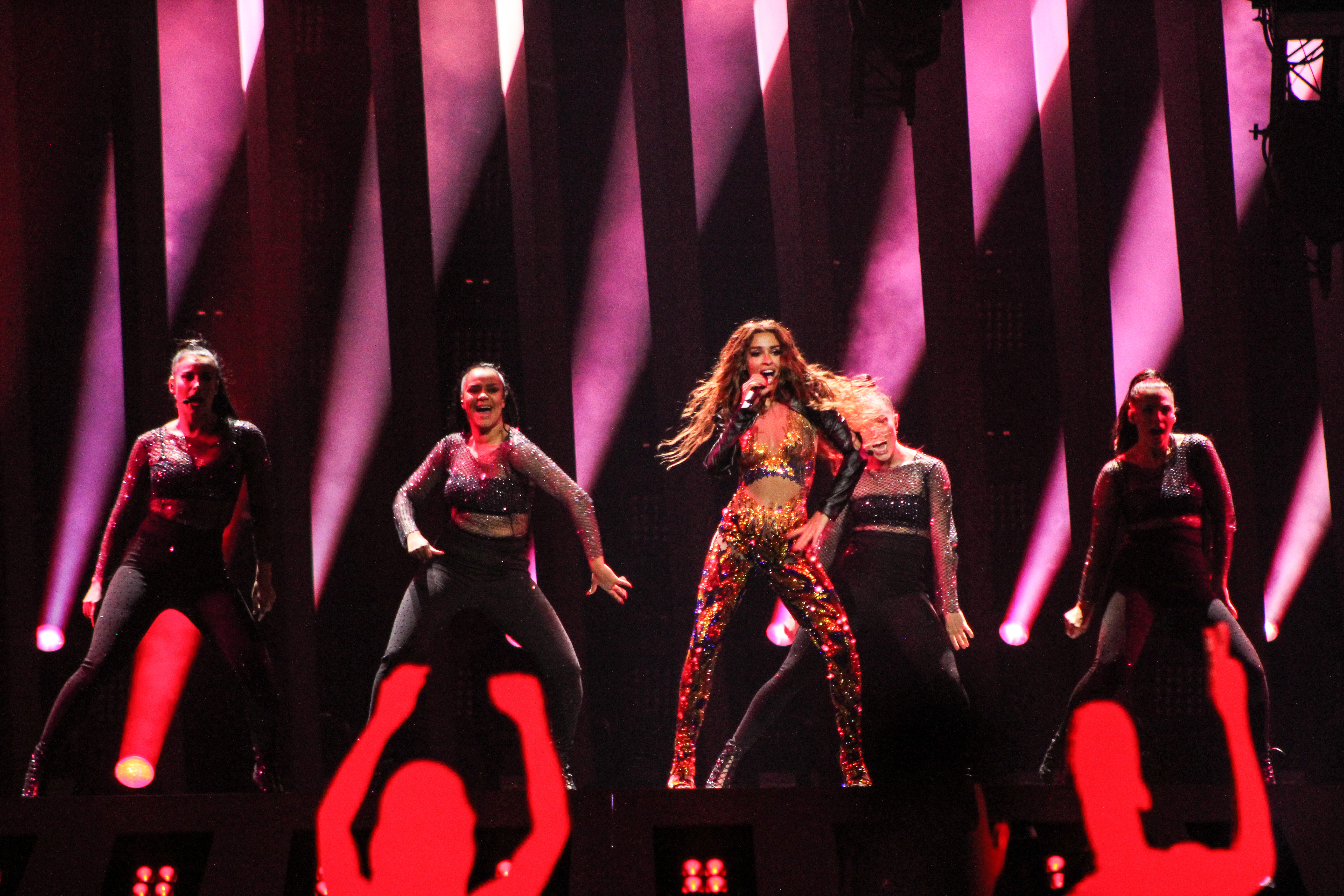 Eleni Foureira representing Cyprus with the song "Fuego" during a rehearsal before the first semi final of the Eurovision Song Contest 2018 in Lisbon.